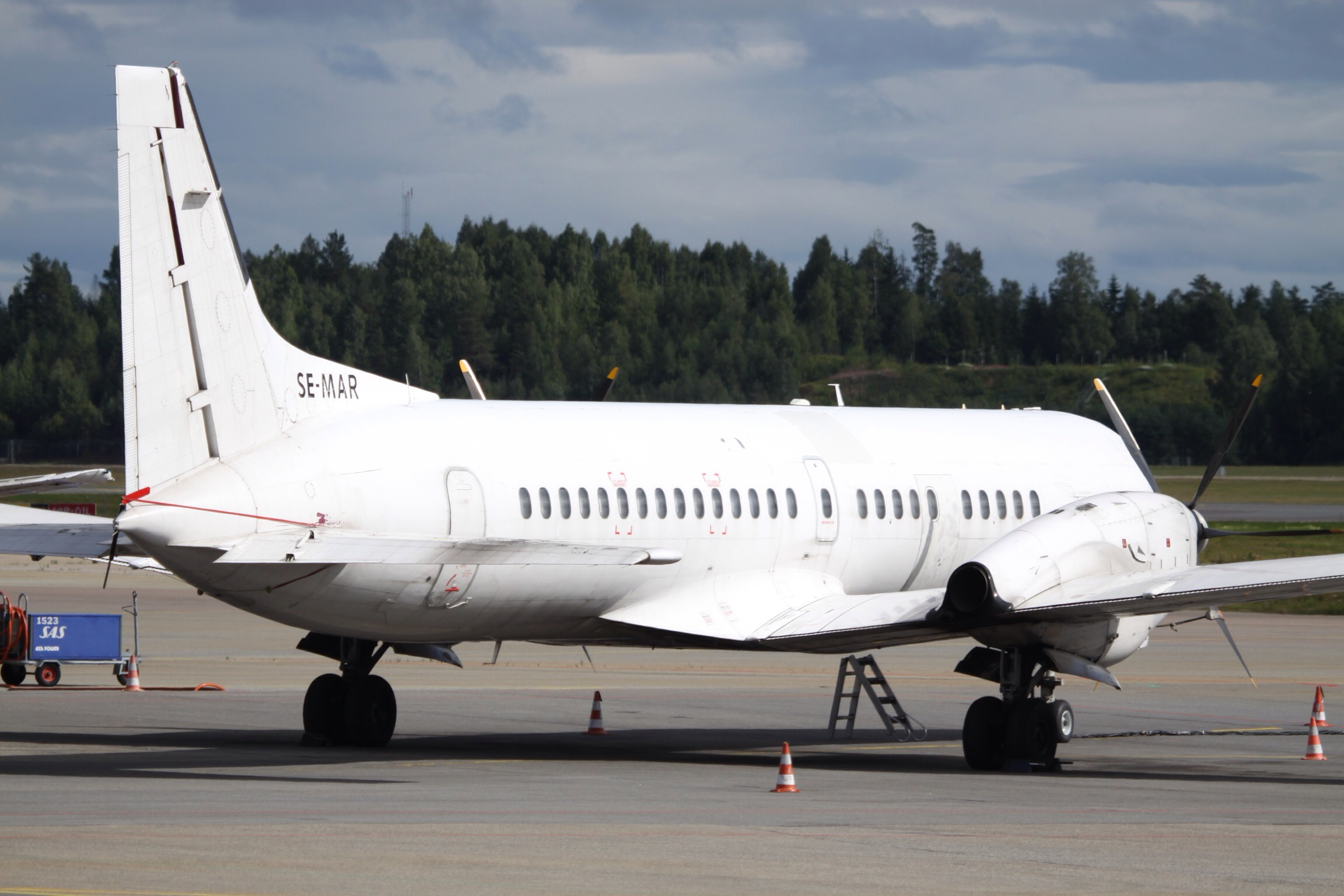 At Oslo Gardermoen